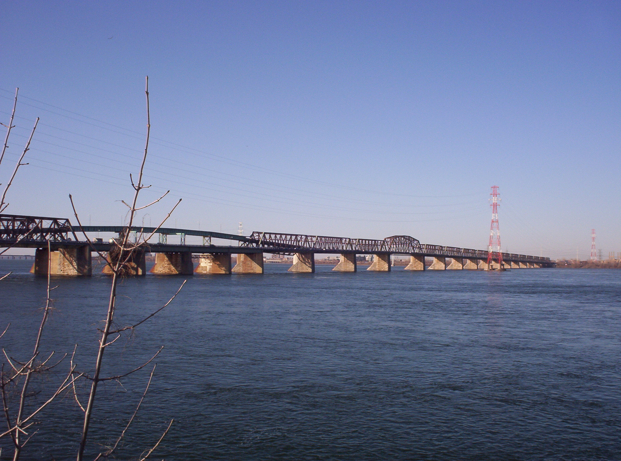 Summary: View on Victoria bridge in Montreal, Quebec Author: Colocho Date: April 26th, 2006